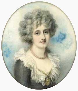 Miniature portrait of Maria Fagnani by Richard Cosway, 1790-1821.